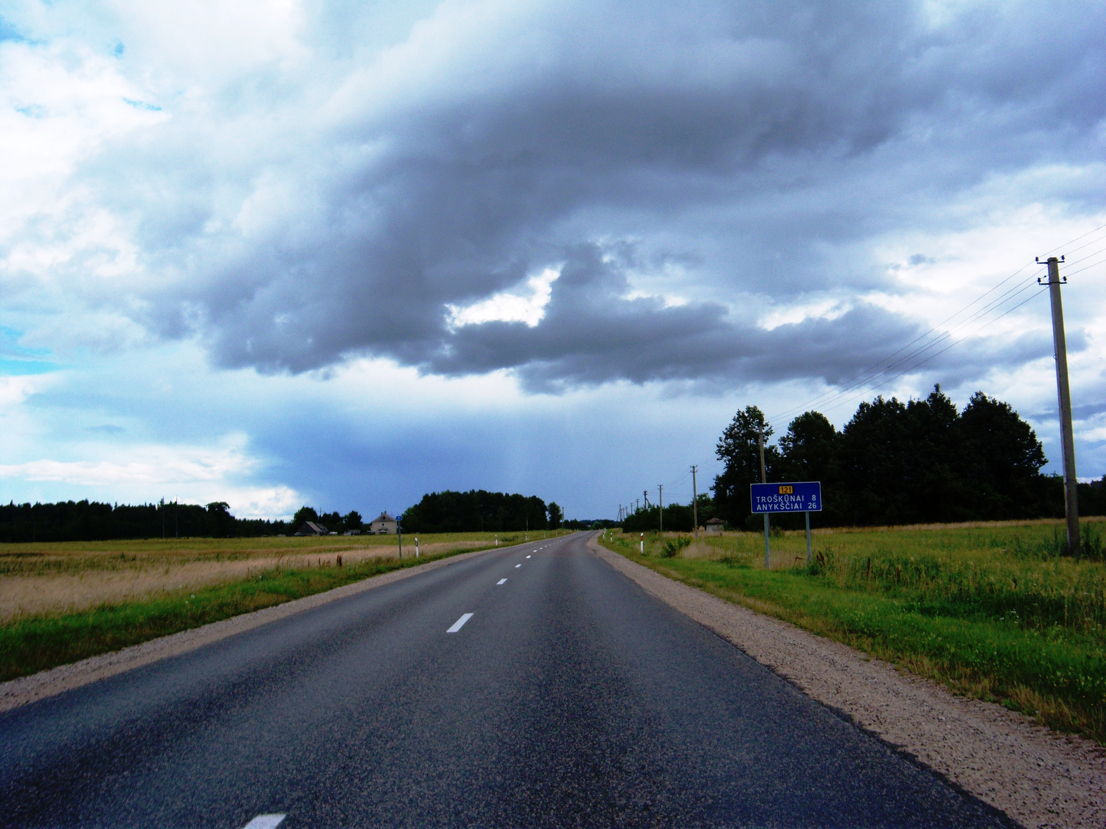 Regional road 121, Anykščiai District, Lithuania